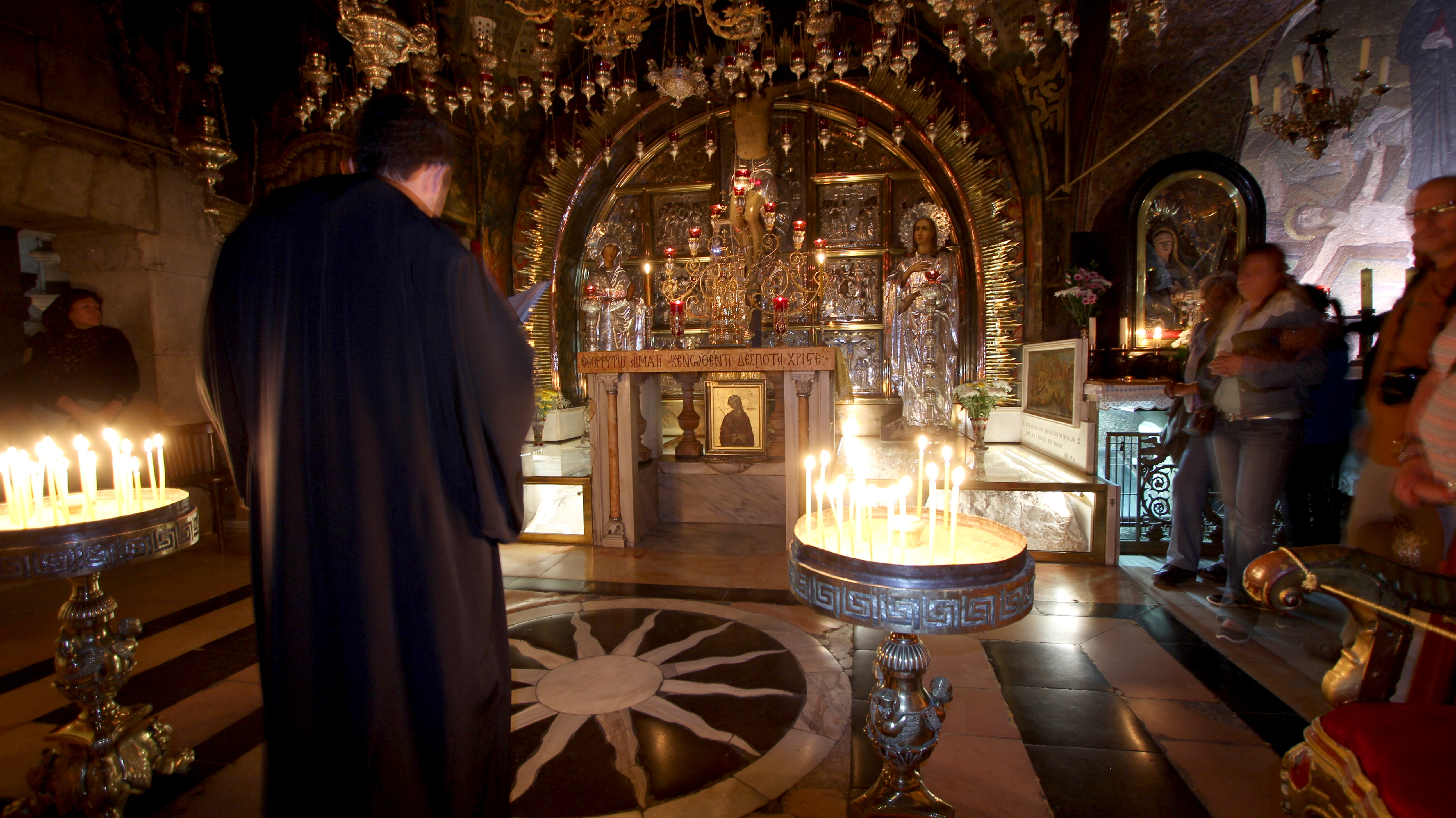 Altar of the Crucifixion